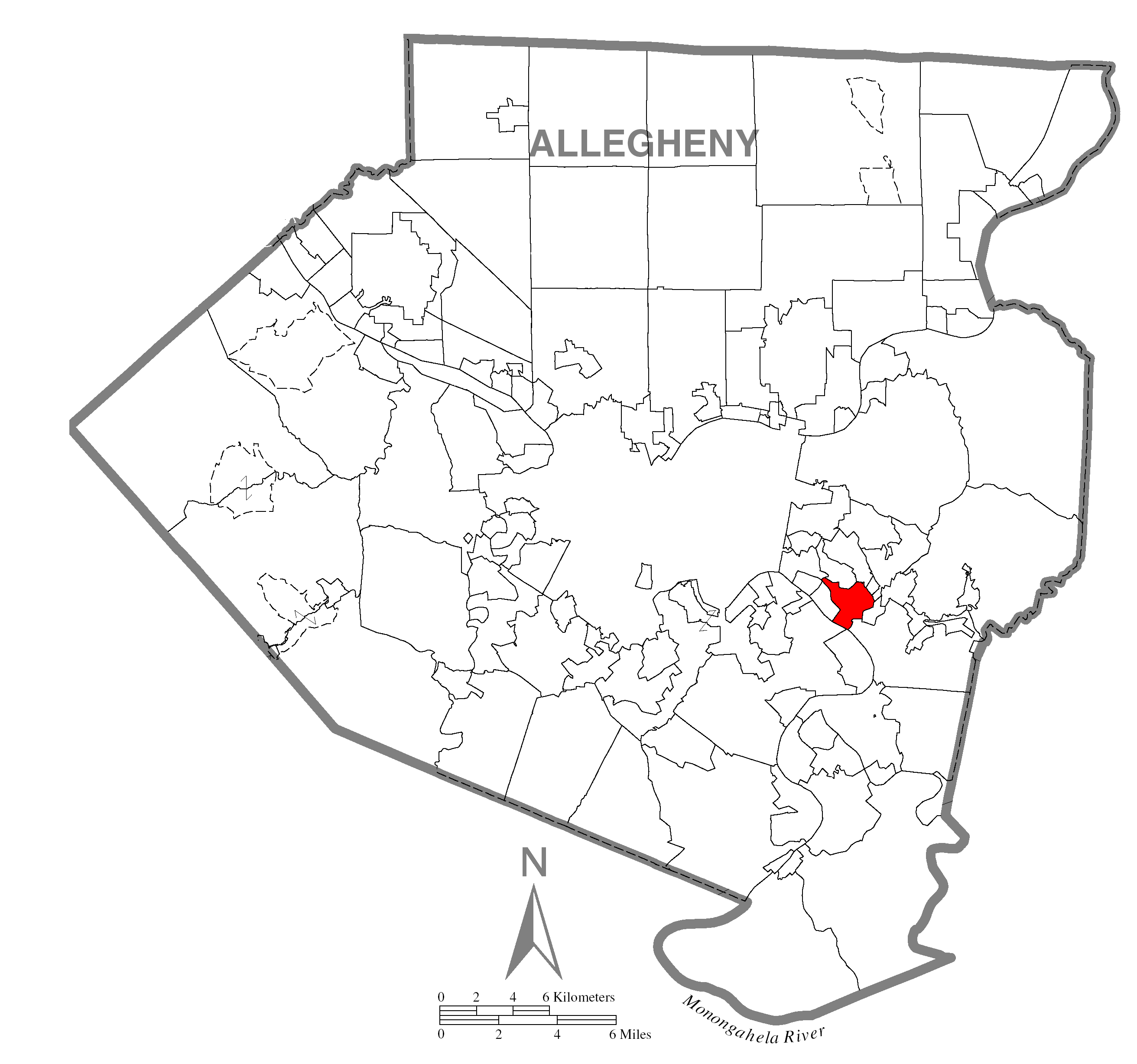 A map of Allegheny County showing North Braddock, Pennsylvania (alternate) highlighted on the map.